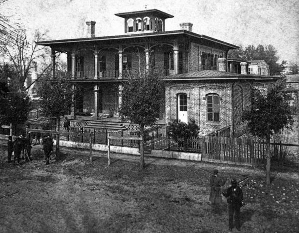 General Truman Seymour's headquarters in Jacksonville, Florida photographed during the Civil War.